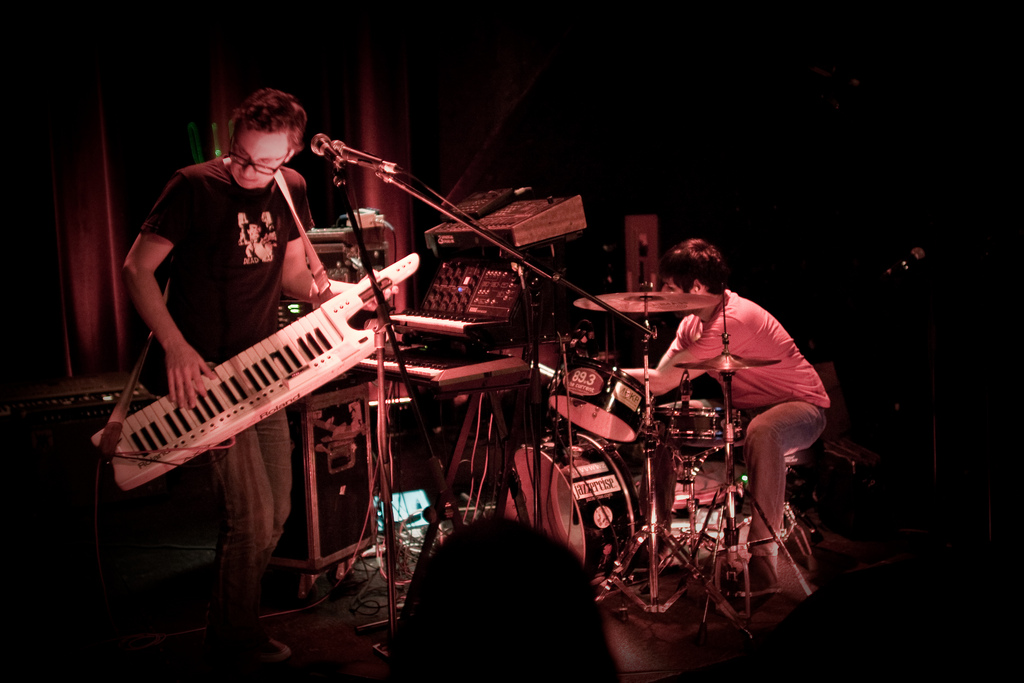 Woodhands performing in Quebec City at Le Cercle. Members from left to right: Dan Werb, Paul Banwatt